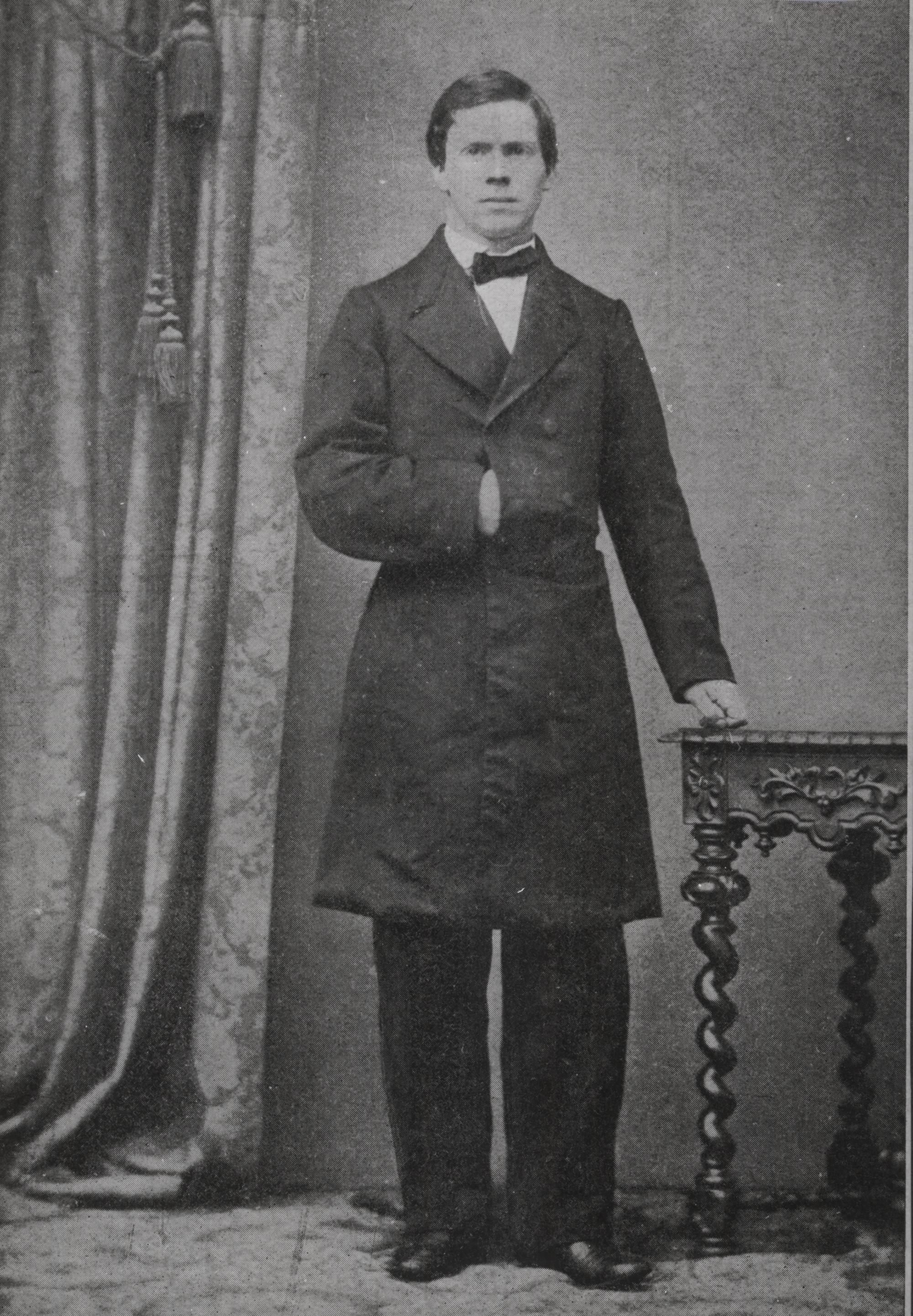 Artist: unknown Date/place: 03.08. 1862, Berlin/Germany Subject: Rikard Nordraak Medium: photographic positive, B&W Notes: none Persistent URL: [#//nettbiblioteket.no/grieg-samlingen/engelsk/grieg_intro_eng.html” Original belongs to the Edvard Grieg Archives at Bergen Public Library]